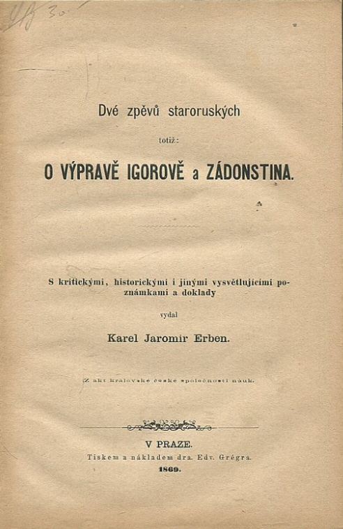 Zadonshchina, first issue in Czech, translation Karel Jaromír Erben